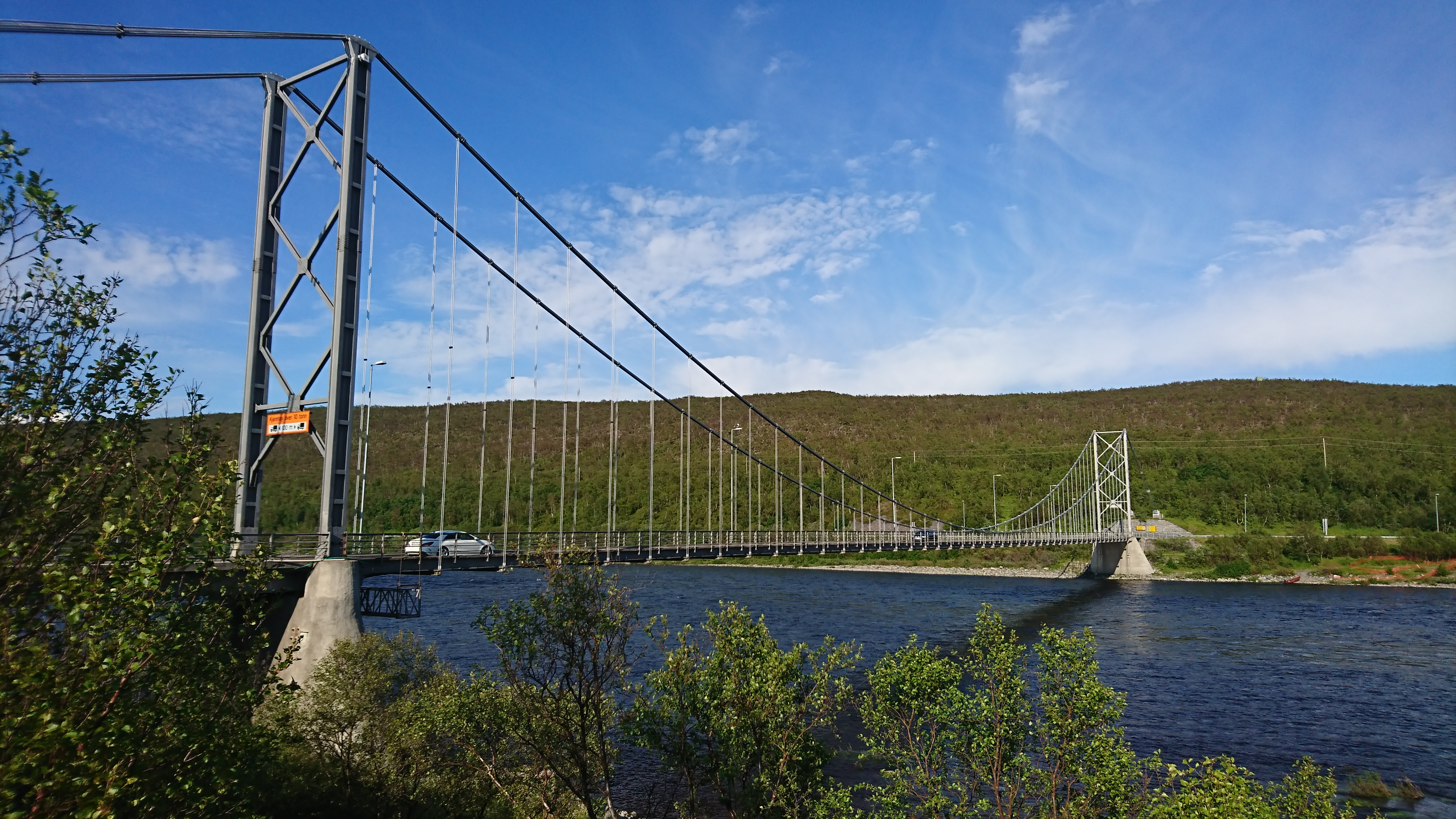 Tana Bridge is a suspension bridge that crossing the Tana River, and is a part of european routes E6 and E75. The bridge was finished after Second World War.